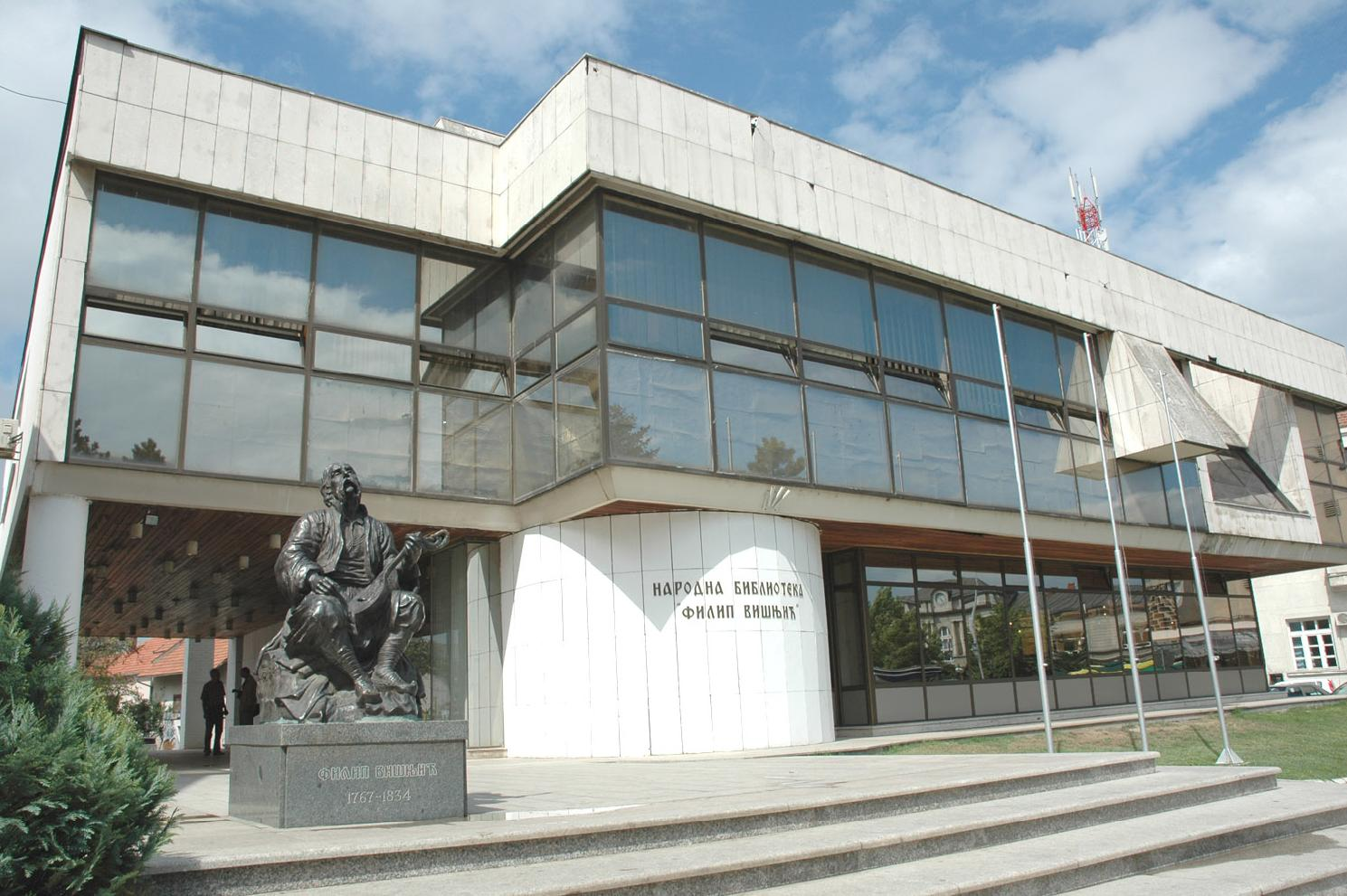 Biblioteka u Bijeljini